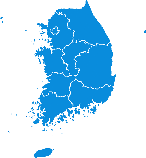 Result map of the 1971 South Korean elections, based on File:PESK2007 RESULT MAP.png. Province borders are reconstructed and may not be accurate.